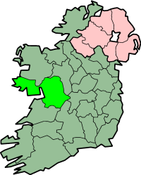 map of County Galway, Ireland 08:04, 5 February 2004 Morwen 200x249 (30493 bytes) (map)